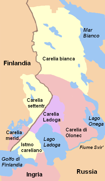 Karelia